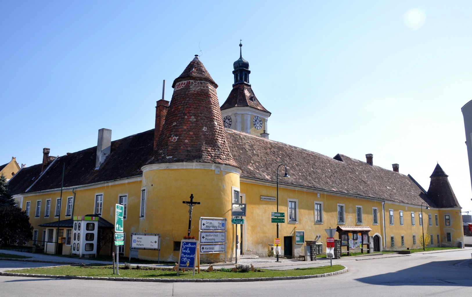 Castle Niederfladnitz in Niederfladnitz, Hardegg, Austria